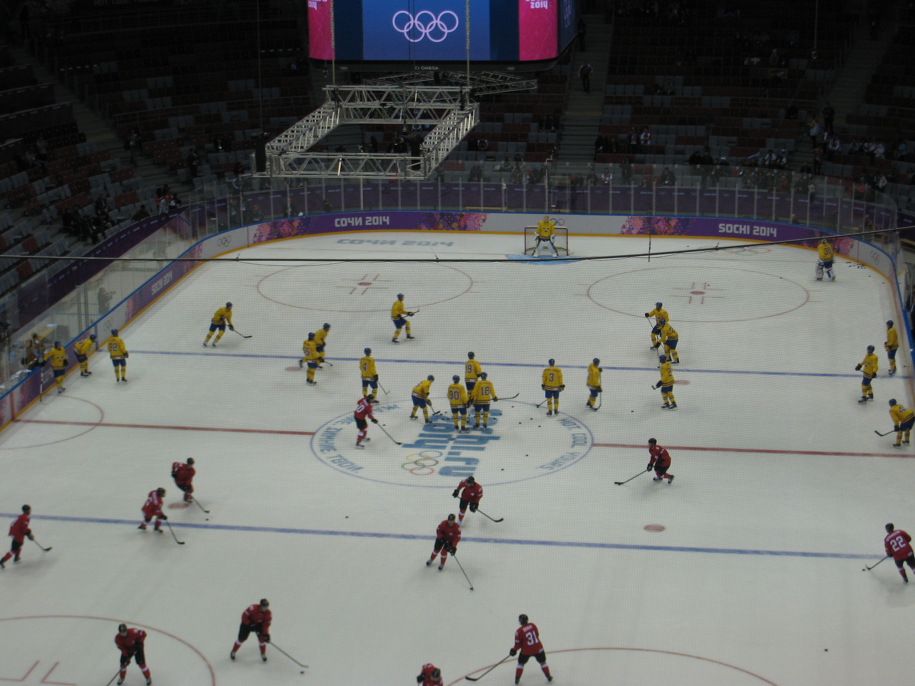 Ice Hockey at the 2014 Winter Olympics in Sochi. Men's Prelim. Round - Group C - Sweden vs. Switzerland.